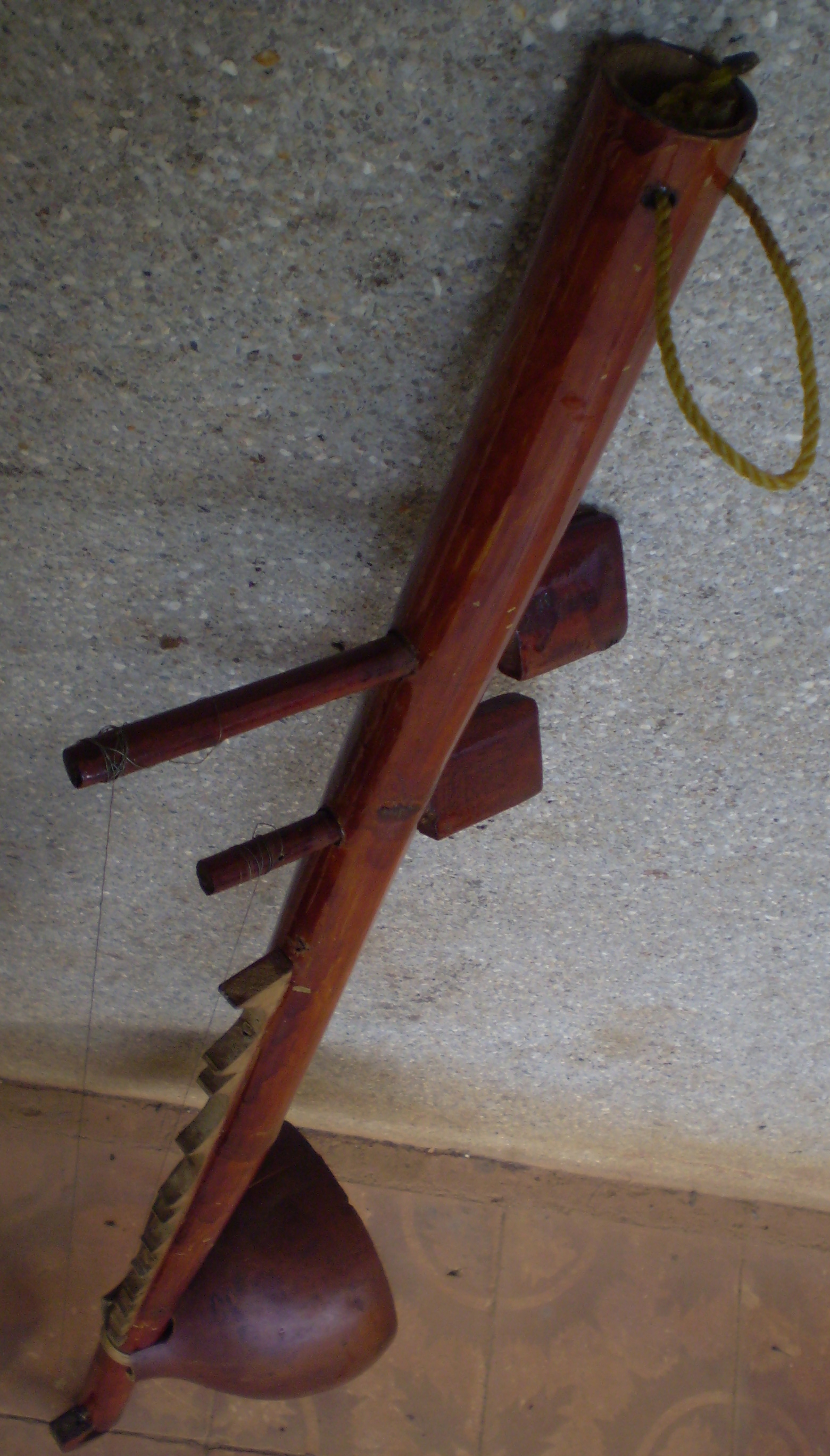 Musical instrument Bro of Ede people in VietnamTiếng Việt: Nhạc cụ Bro của người dân tộc Ê đê